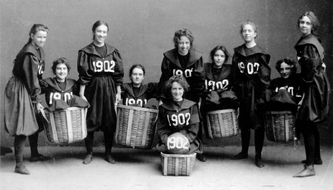 Smith College class of 1902 basketball team (1902 was their year of planned graduation; this photo may not actually have been taken in 1902). Uploaded as better example image for Bloomers (clothing)